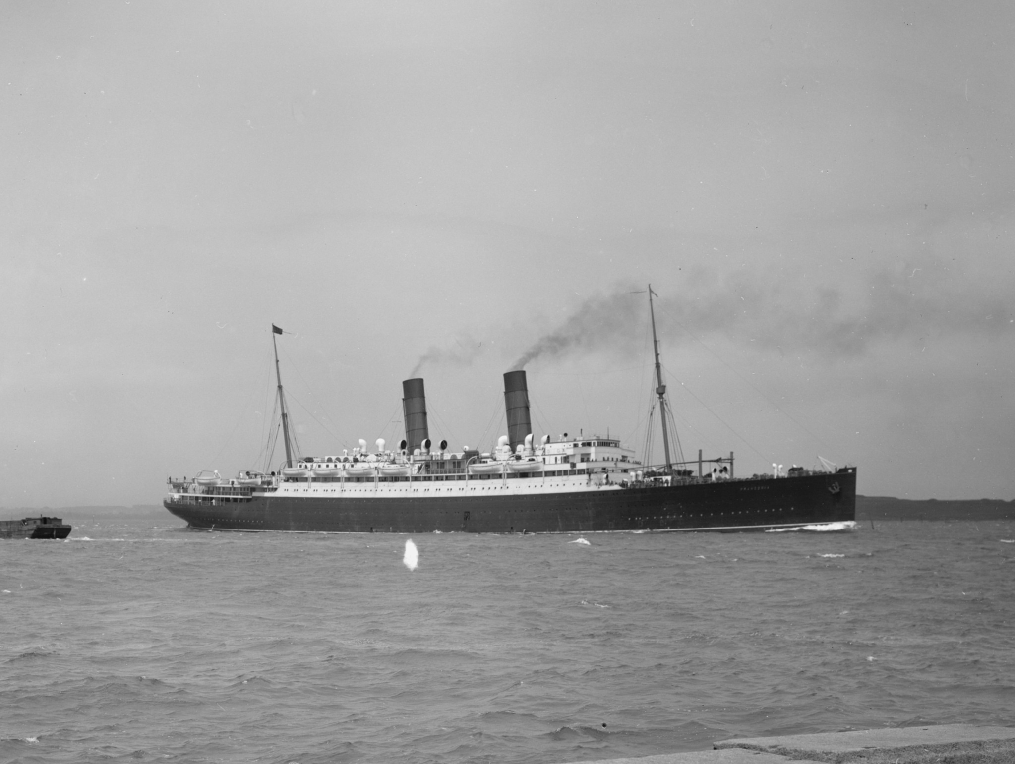 The SS Franconia passing Castle Island in Boston Harbor, between 1910 and 1916